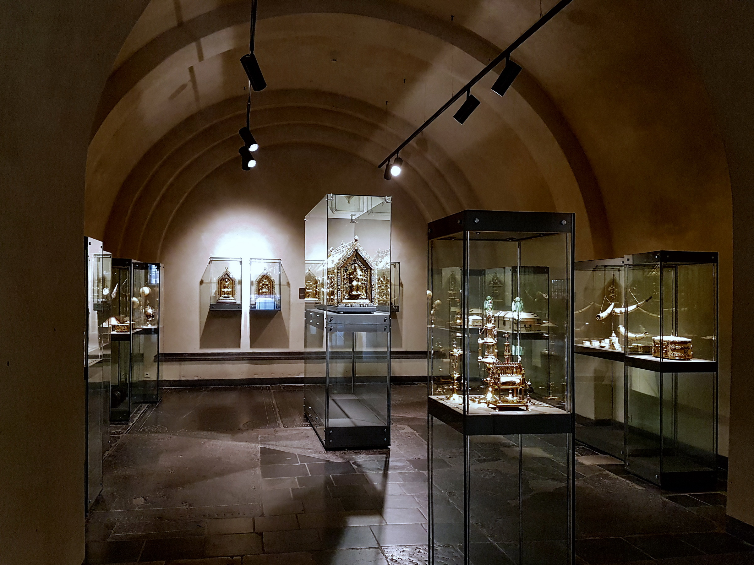 View of the lower floor in the so-called Double Chapel in the Basilica of Saint Servatius in Maastricht, the Netherlands.